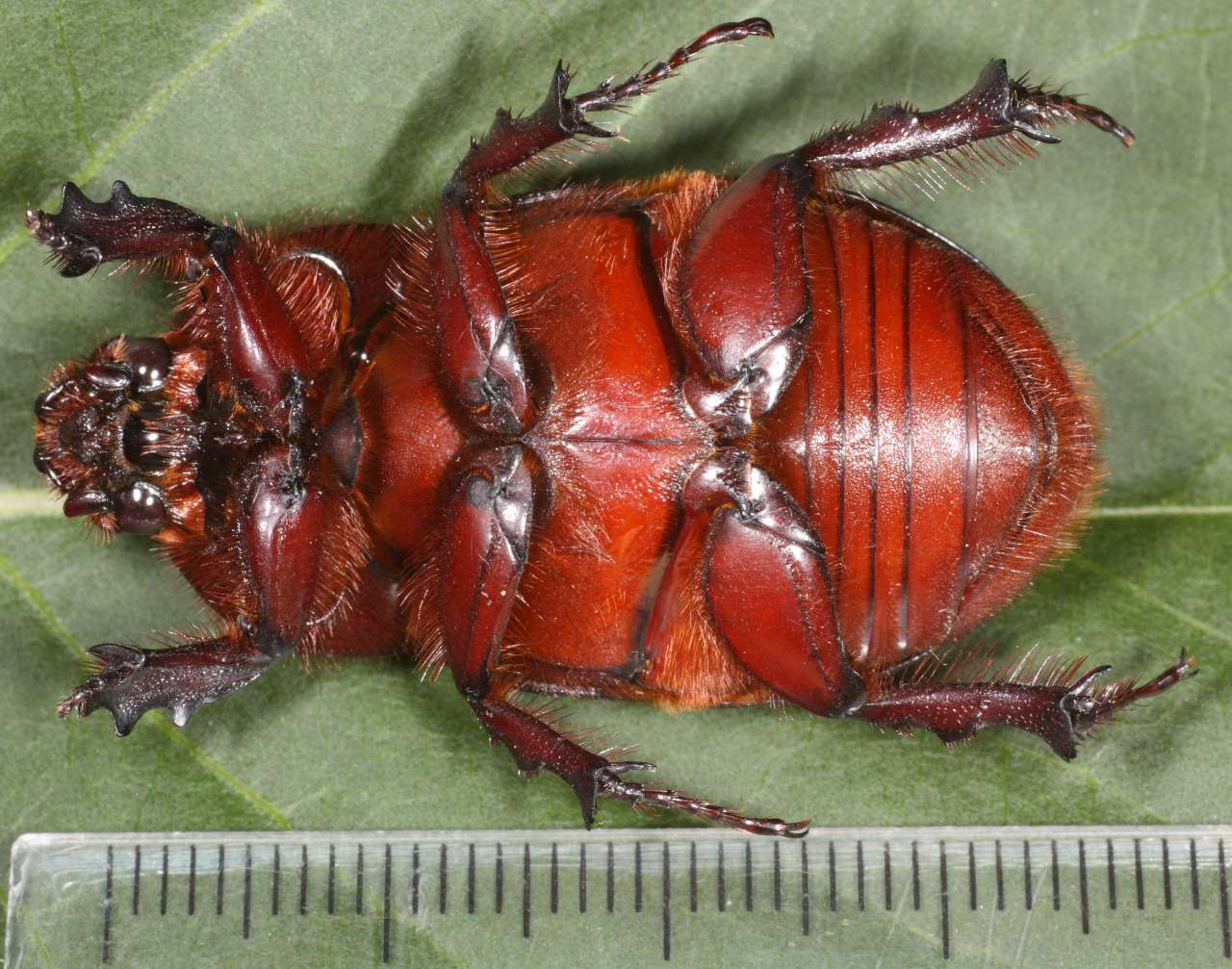 European rhinoceros beetle (Oryctes nasicornis) underside